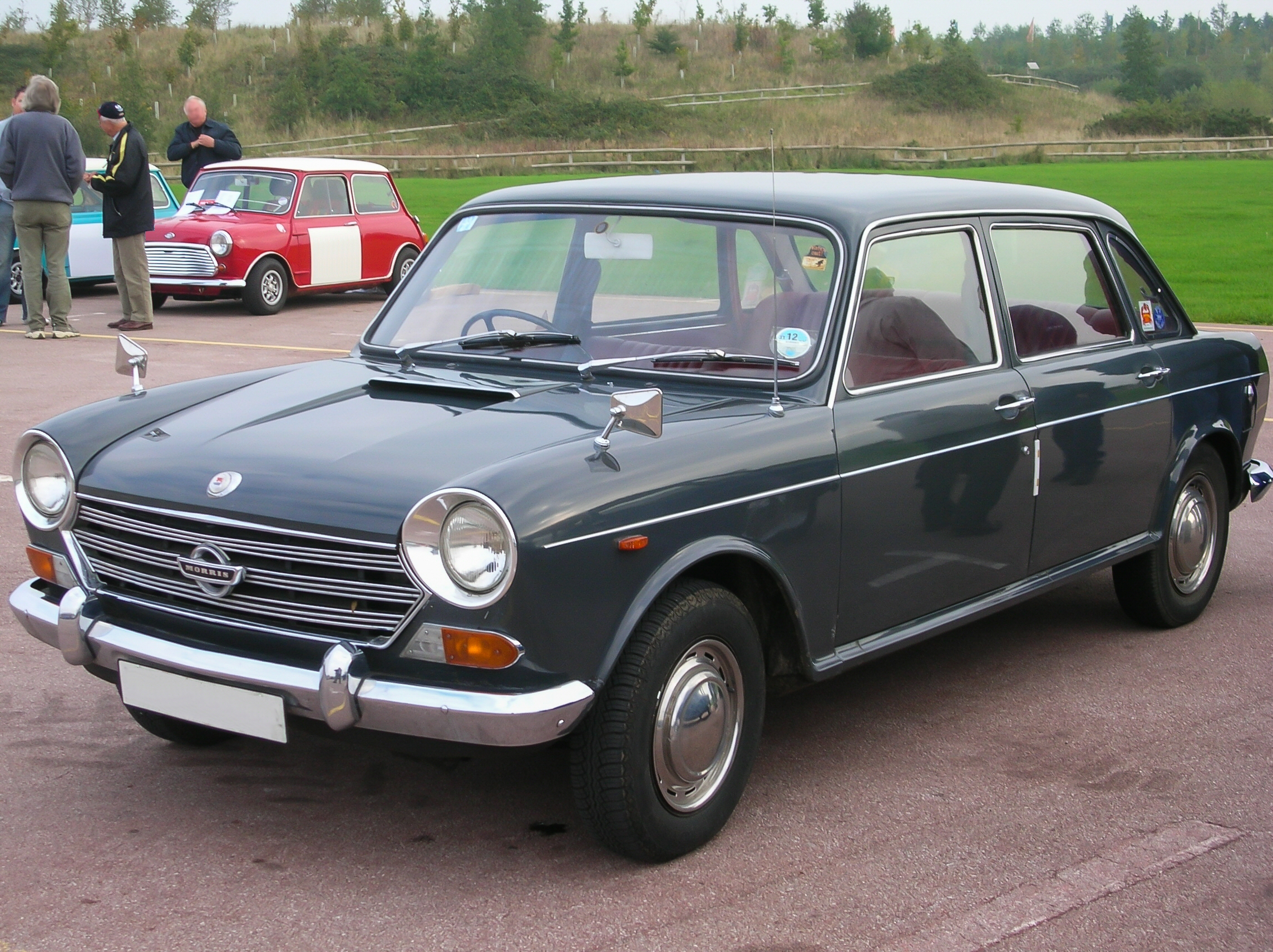 A 1970 Morris 1800 Mark II. Photographed at the Alec Issigonis centenary rally at the Heritage Motor Centre, Gaydon, UK.